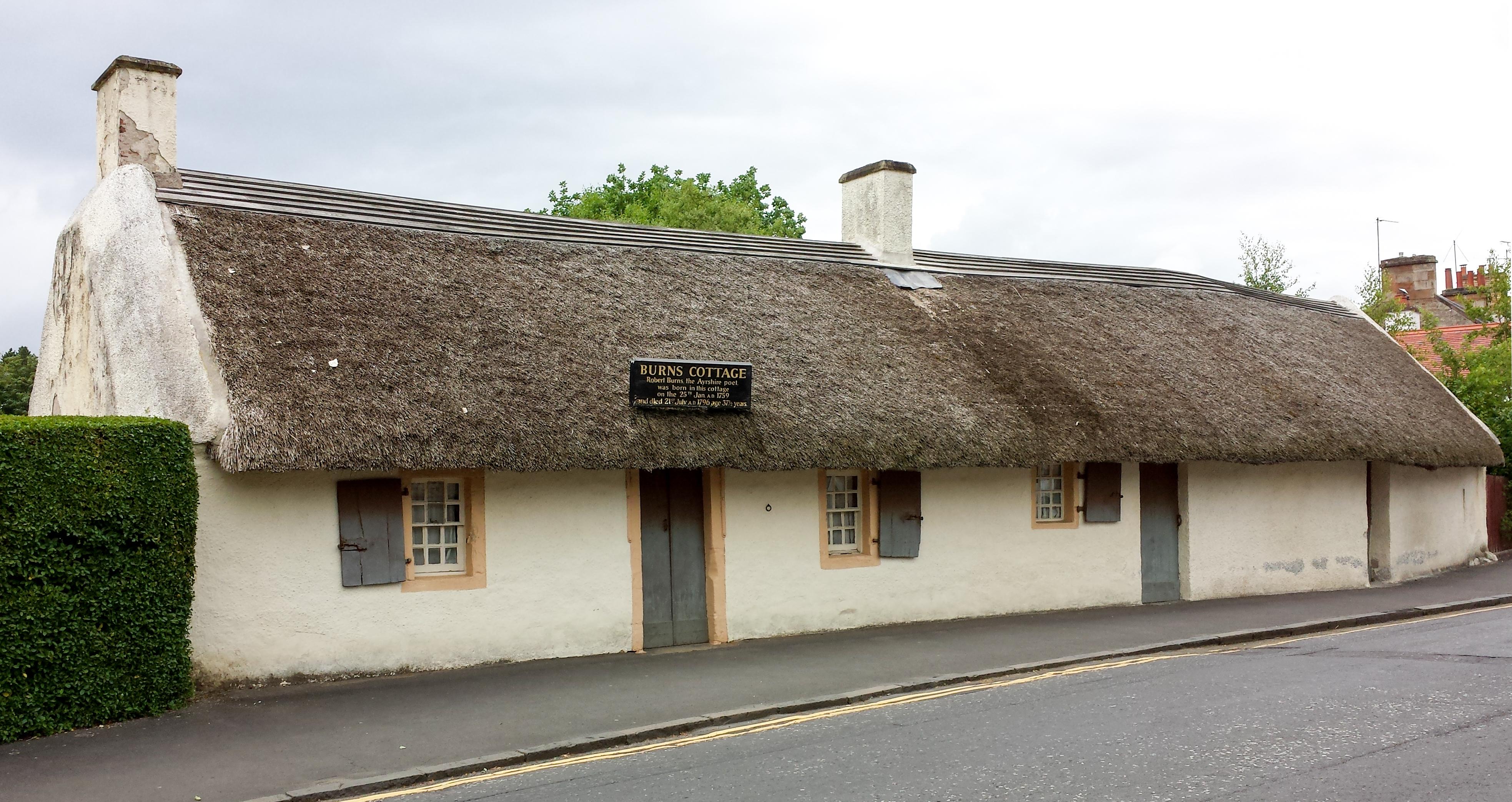 The cottage where Rabbie Burns, Scottish poet and lyricist, was born. Located in Alloway, Scotland, it is now part of the Robert Burns Birthplace Museum.